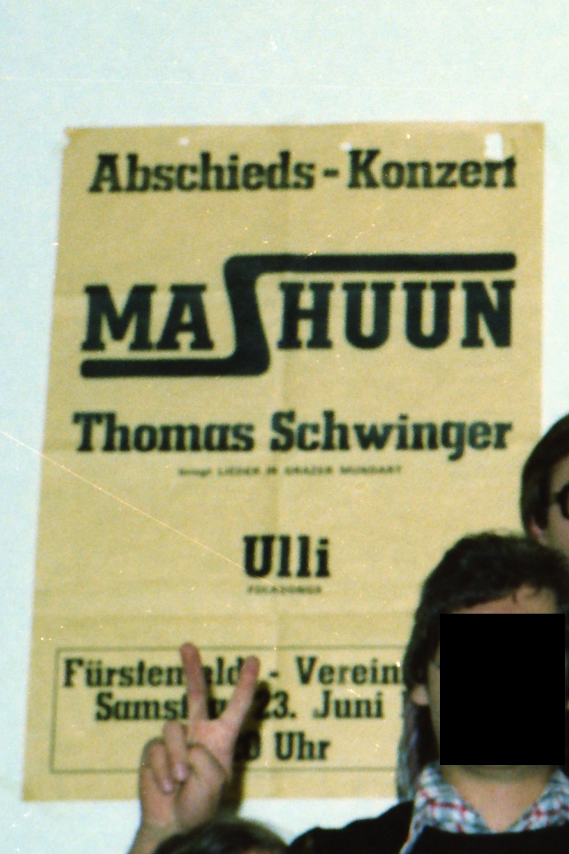 Musical groups from Austria Mashuun